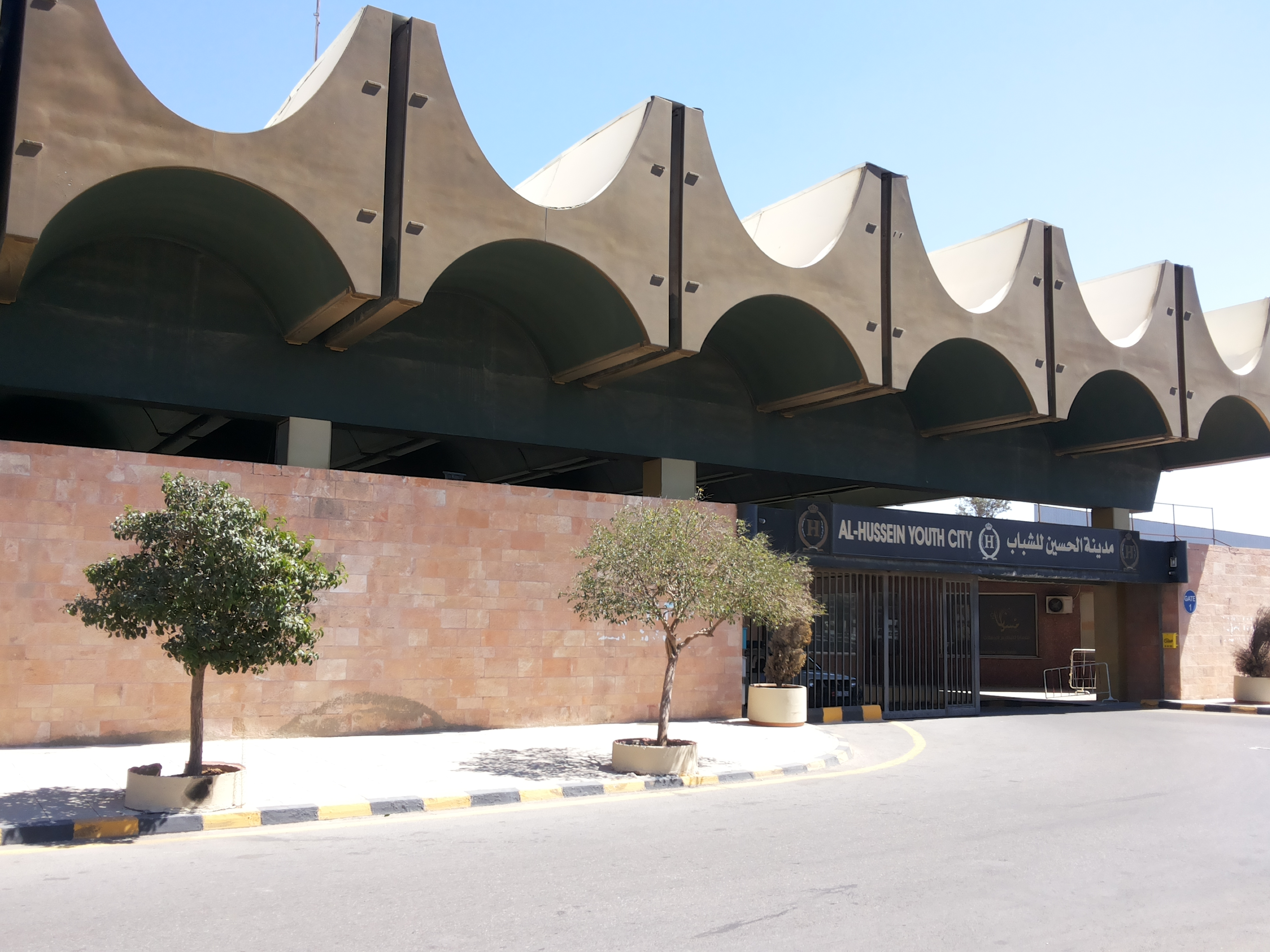 Main Gate of Al Hussein Youth City, Amman, Jordan.